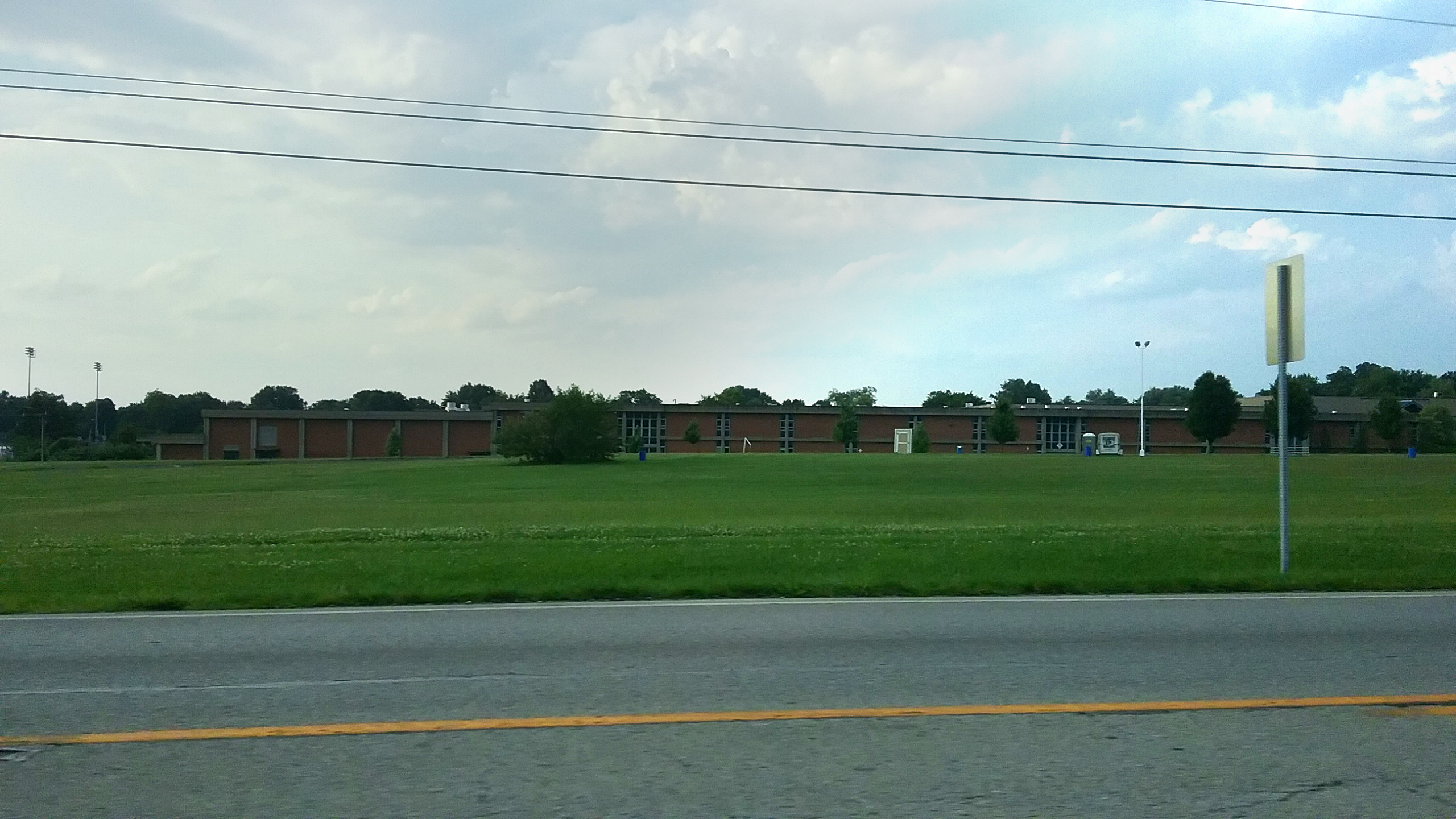 The image of the high school was taken on July 7, 2017